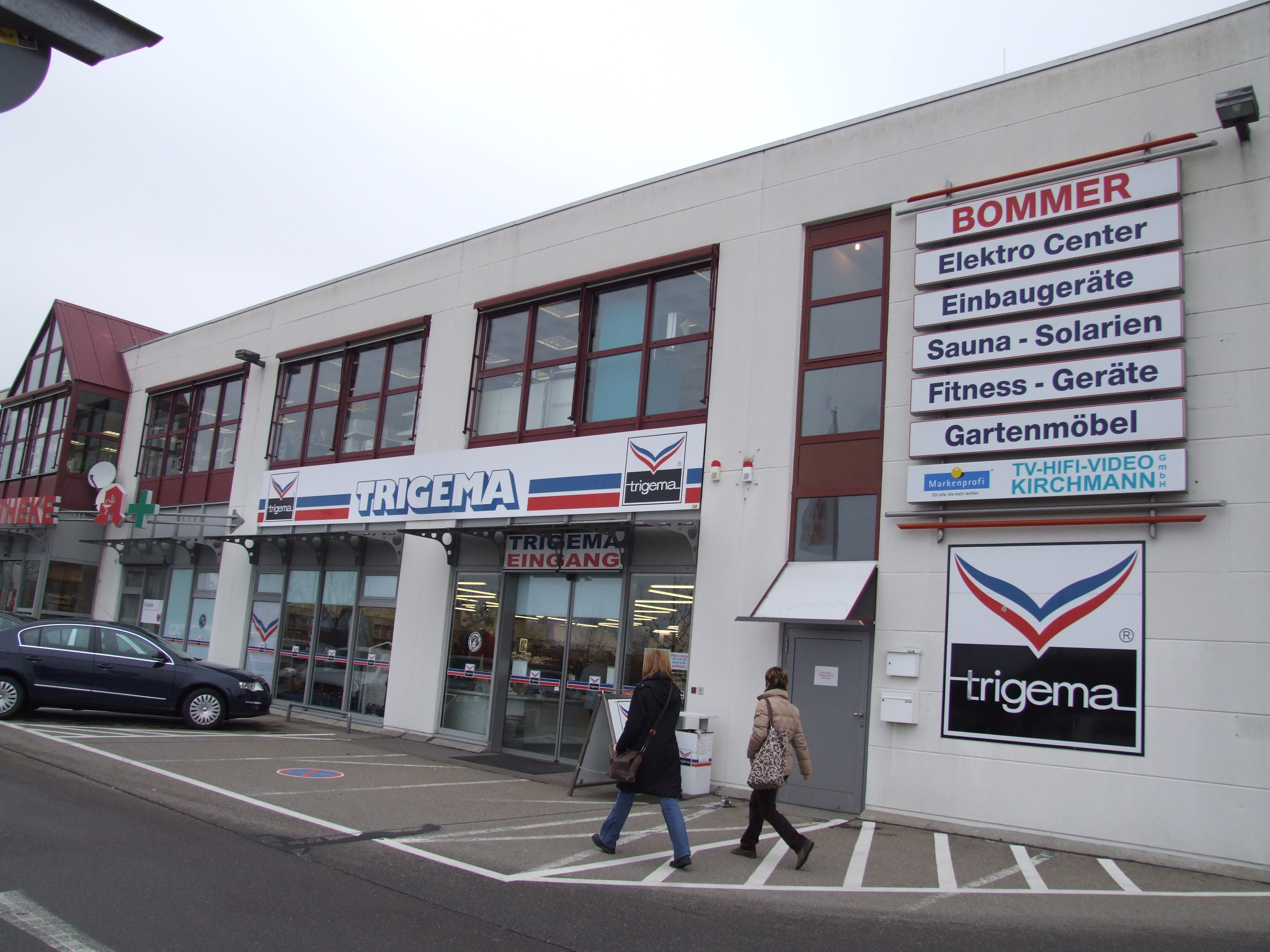 Clothingshop of Trigema in Nußdorf (Überlingen)